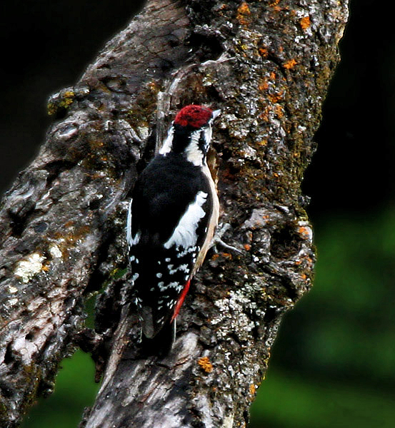 Himalayan Woodpecker Dendrocopos himalayensis in Kullu District of Himachal Pradesh, India.